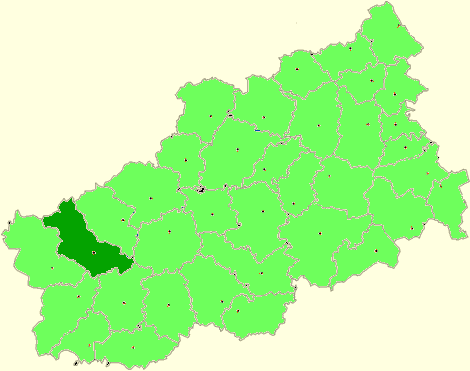 Tver Oblast map by Al Silonov